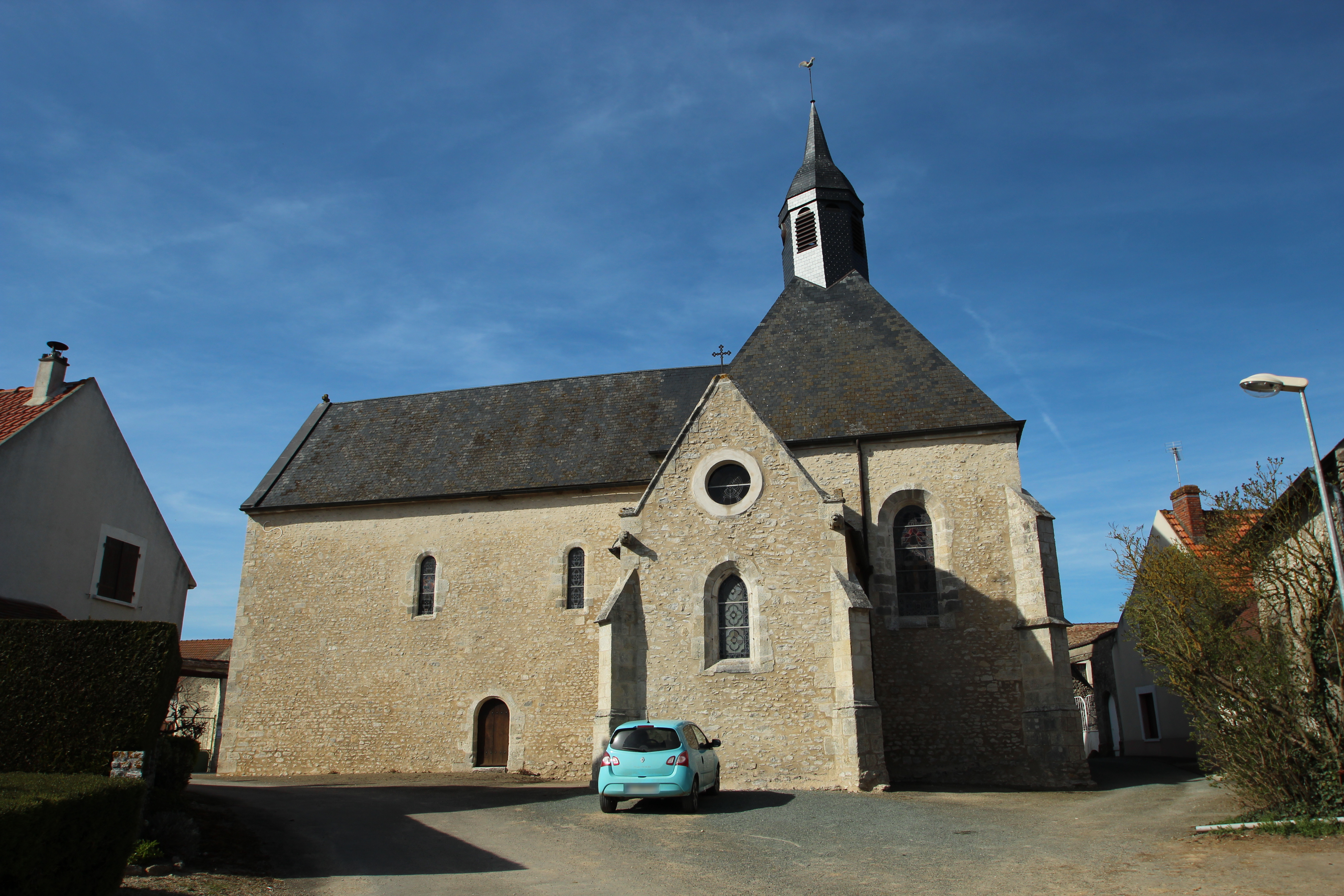 Saint Germain church in Grandville hamlet in Gommerville, Eure-et-Loir, France. Object location48° 21′ 41.94″ N, 1° 58′ 11.14″ E